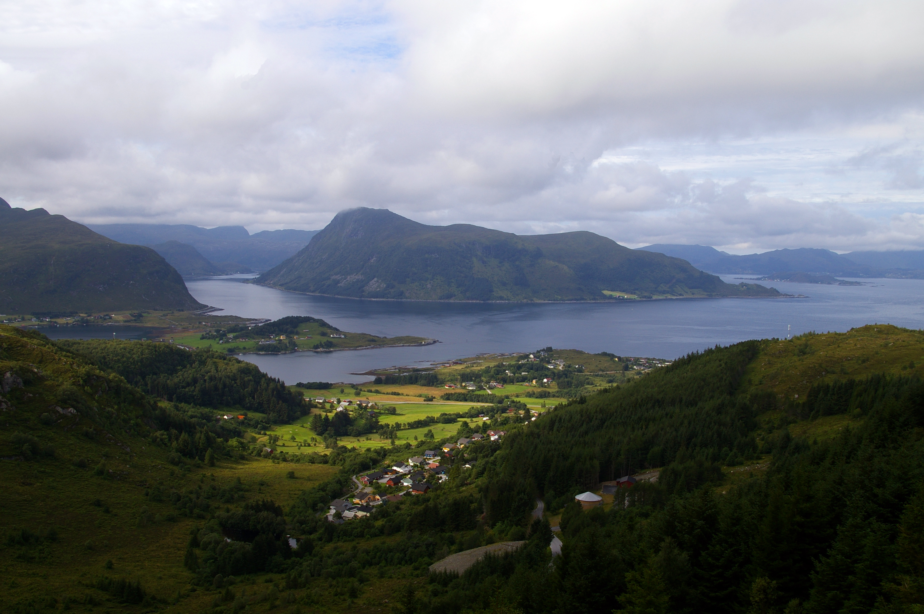 Barmøya Island in Selje, Sogn og Fjordane, Norway, seen from the Northeast; in the right background the island of Silda